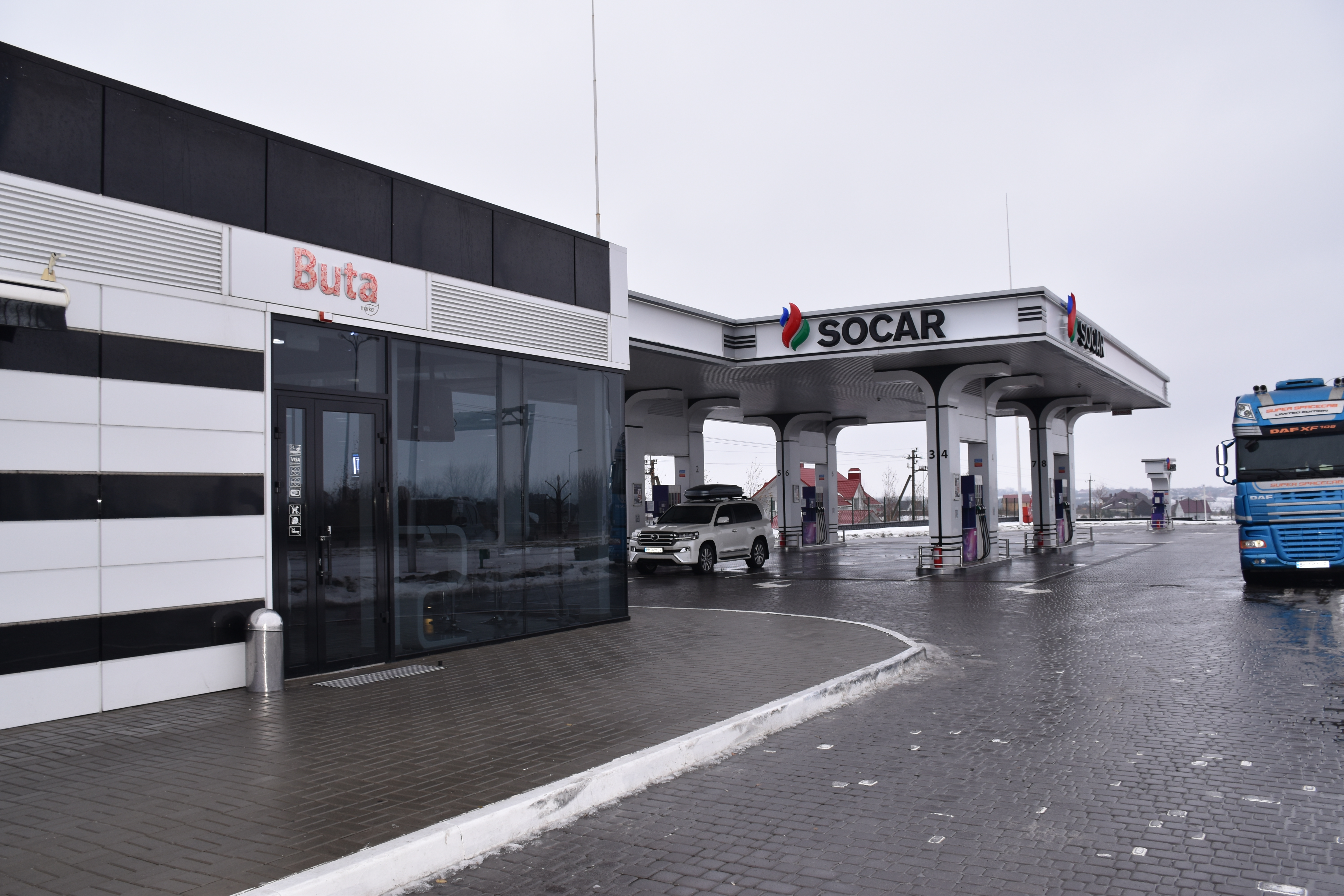 SOCAR gasoline filling station at M06 in Rivne Raion, Ukraine.